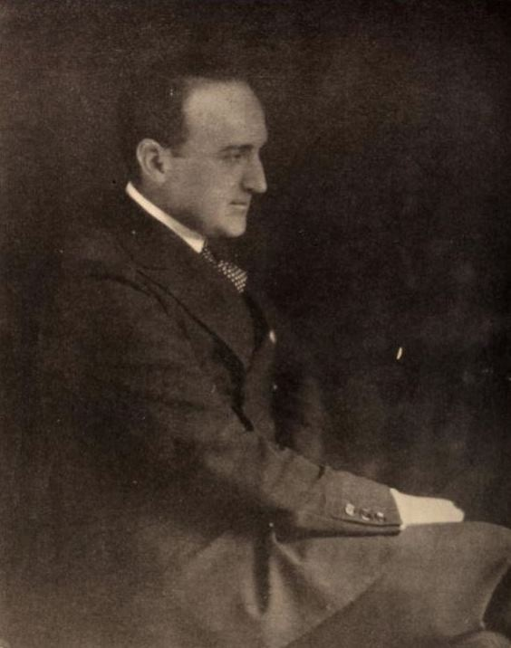 Director Albert Parker, on page 60 of the December 25, 1920 Exhibitors Herald.